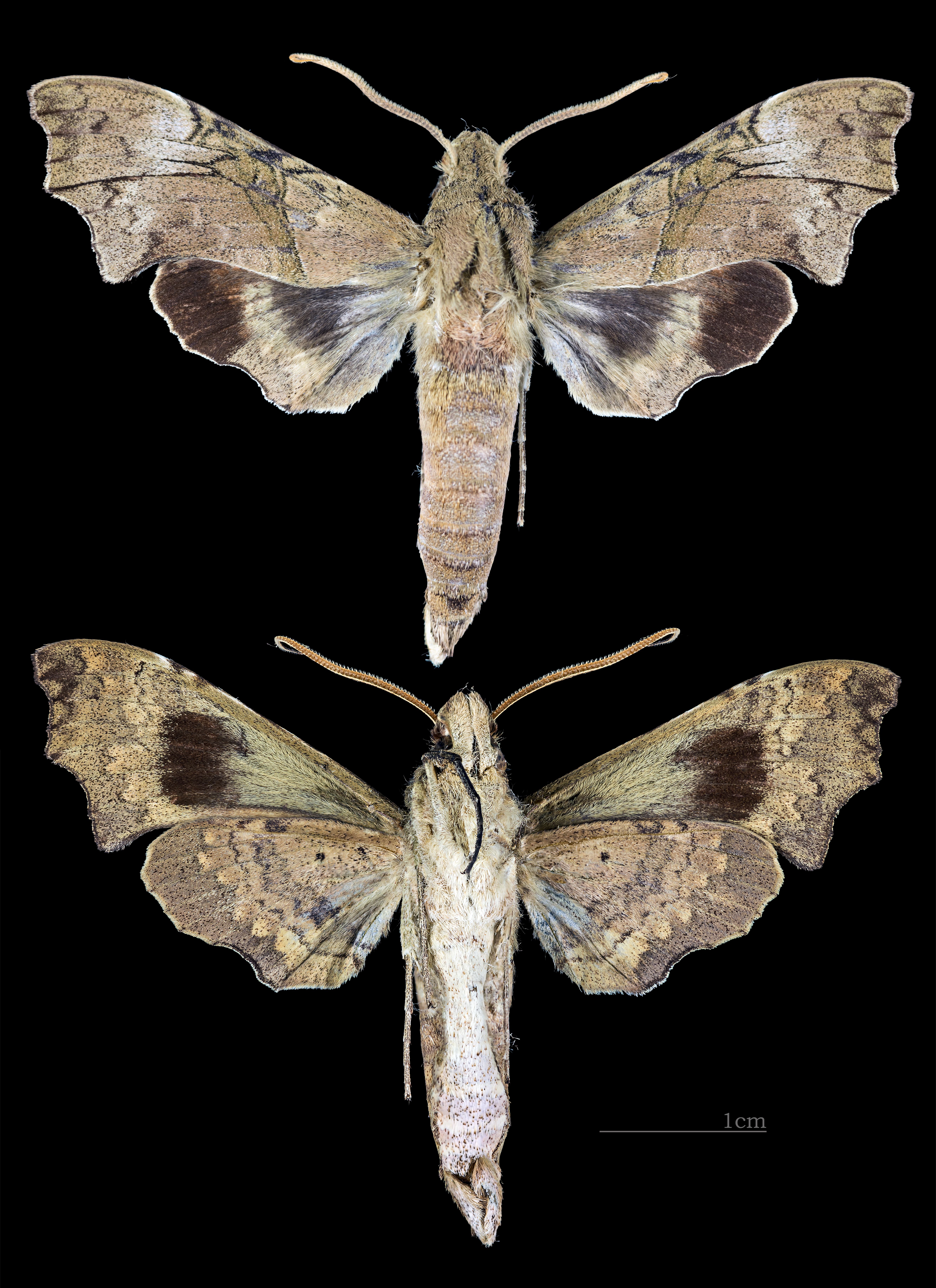 Aleuron neglectum - Two views of same specimen Collection of the Mathematician Laurent Schwartz